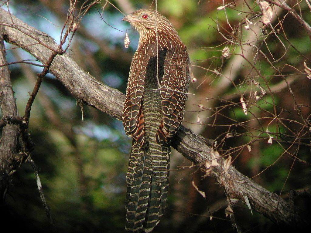 Pheasant Coucal (Centropus phasianinus) Kobble Creek, SE Queensland, Australia